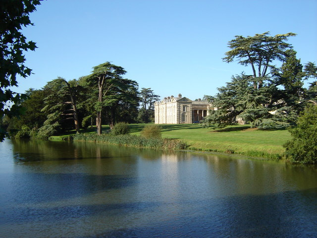 Compton Verney House and Lake Taken from the footbridge.